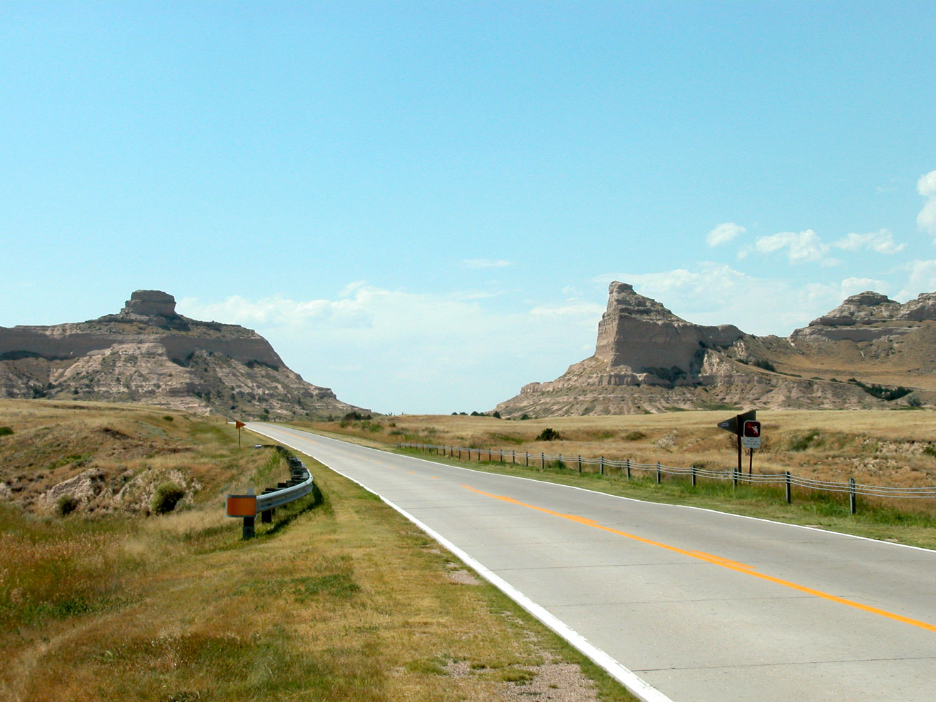 Scotts Bluff, Nebraska on Oregon National Historic Trail